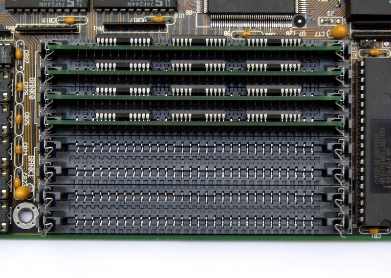 SIMM slots with RAM.